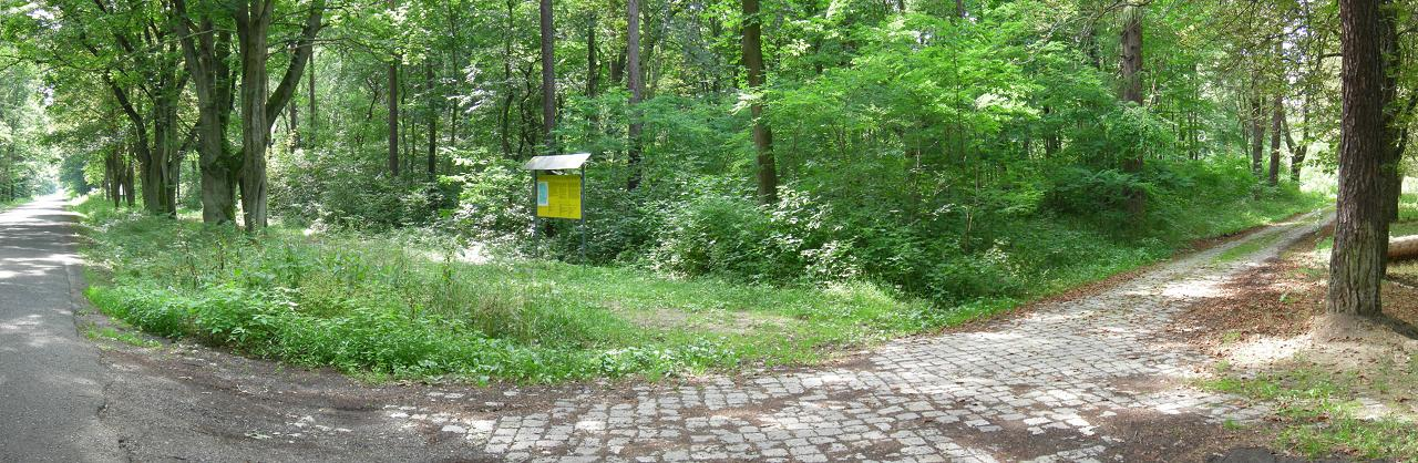 Site of the former Lamsdorf POW Stalag VIII B in Łambinowice.